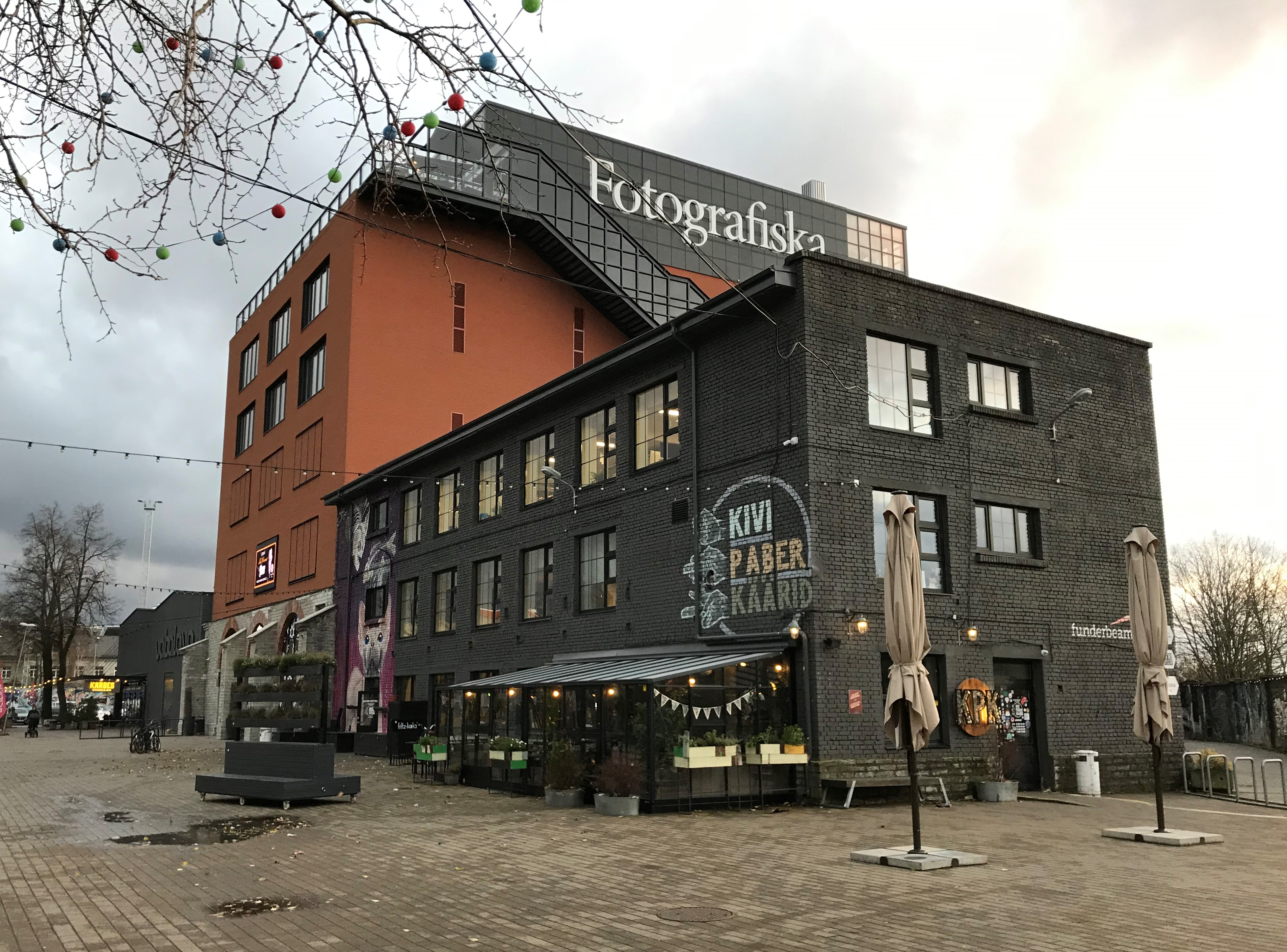 Fotografiska in Telliskivi Creative City in Tallinn, Estonia, November 14, 20019.